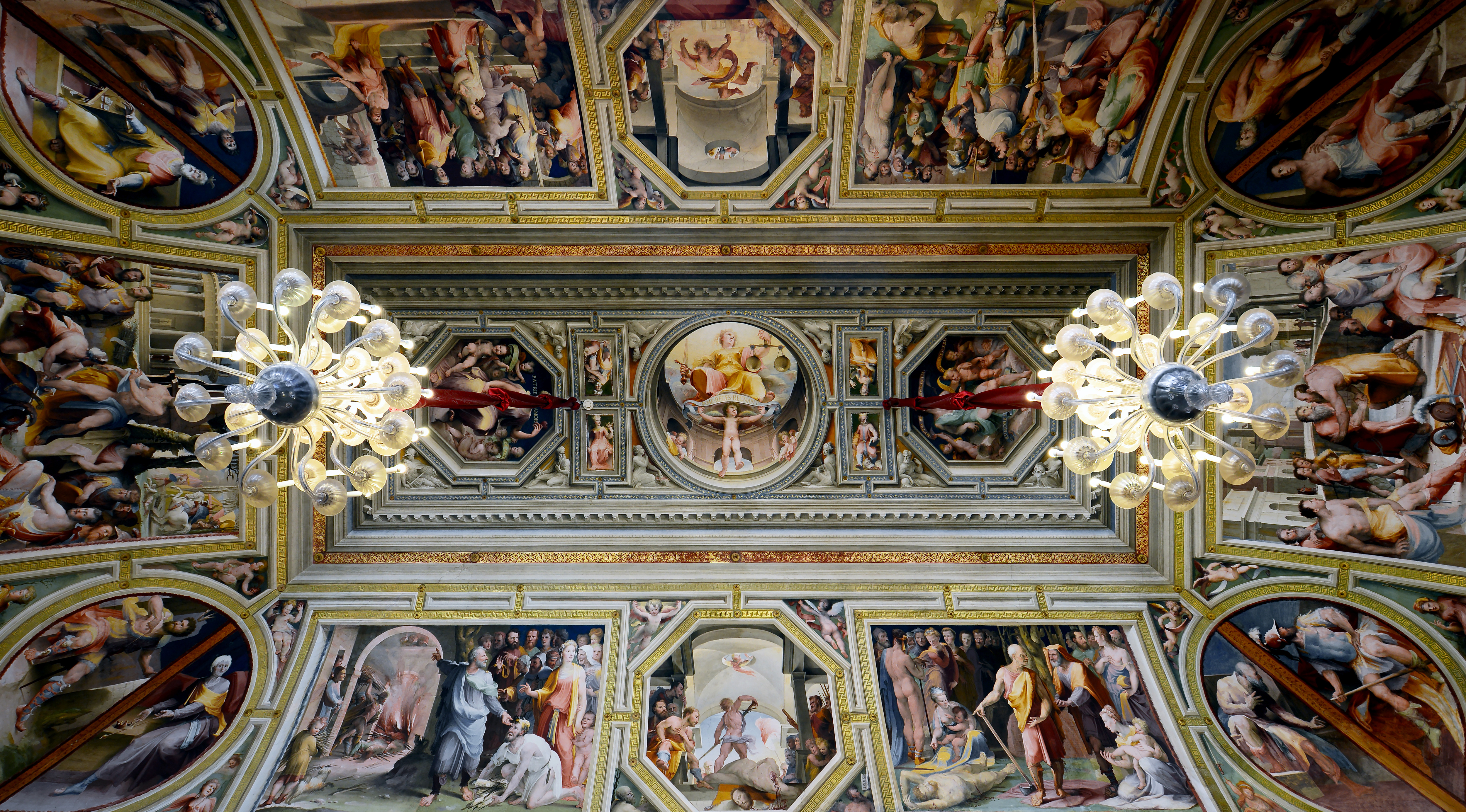 Ceiling of the Hall of the Consistory in Palazzo Pubblico (Siena)